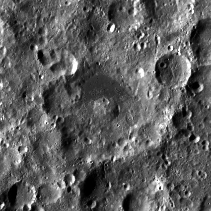 Bolyai crater - LROC image